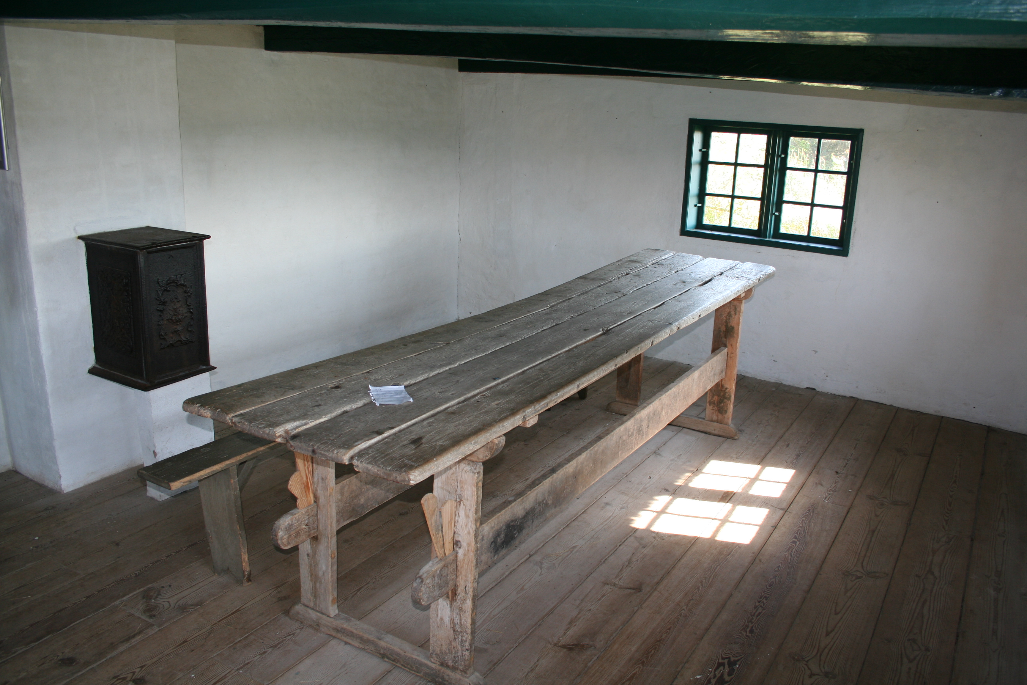 This is the inner part of the old school in Toftum, Rømø.